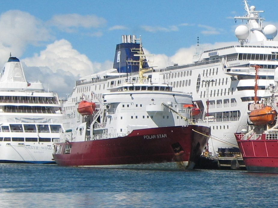 MS Polar Star in Ushuaia, Argentina 30 december 2007